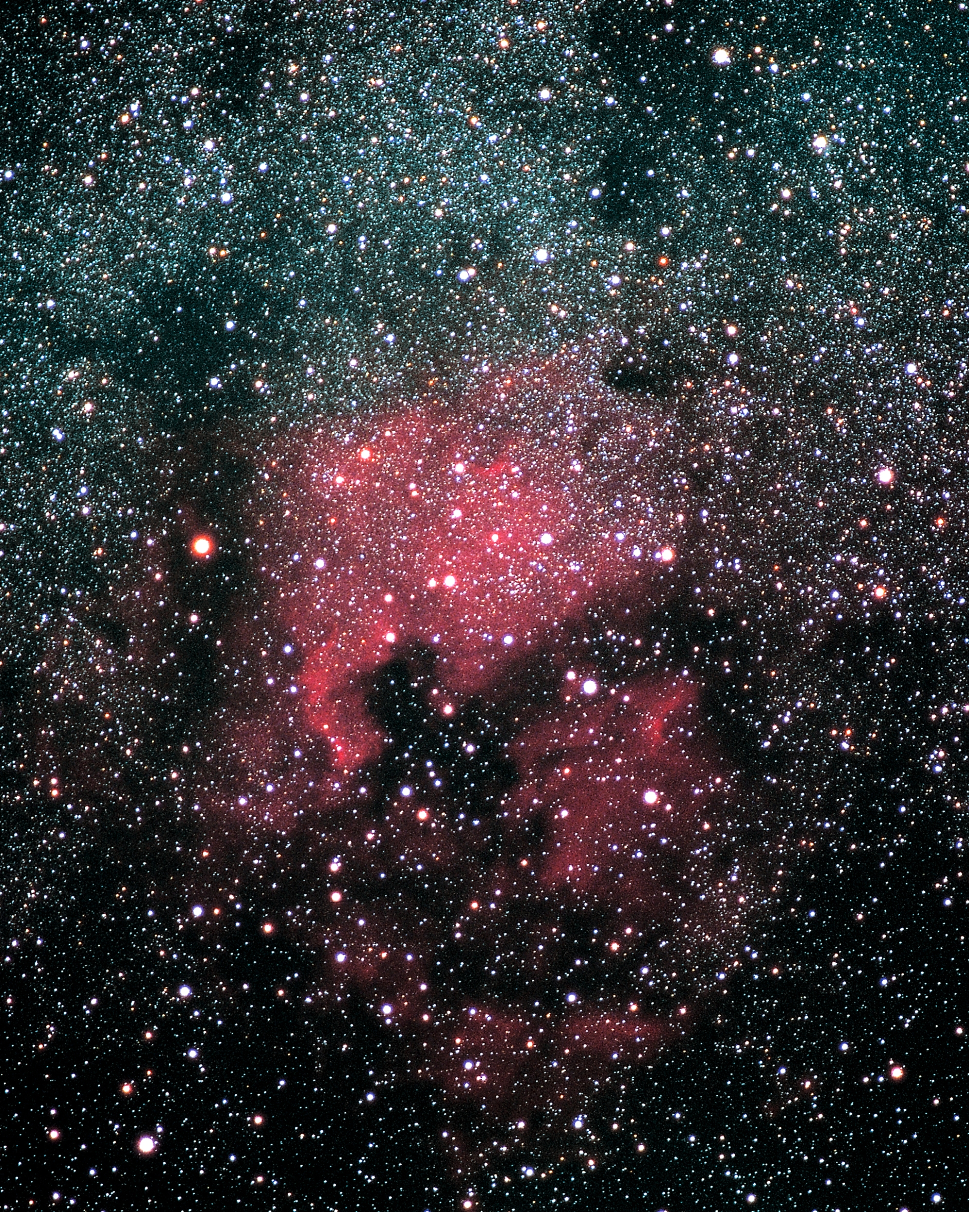 North America Nebula, as seen in Belgium (Hamois)